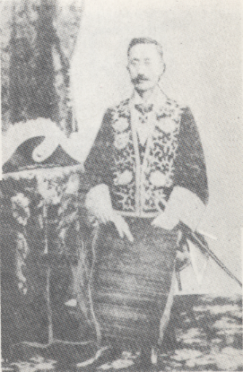 Jwaong Yun Ychi-ho fourth years aged, Korean empire's bureaucracy